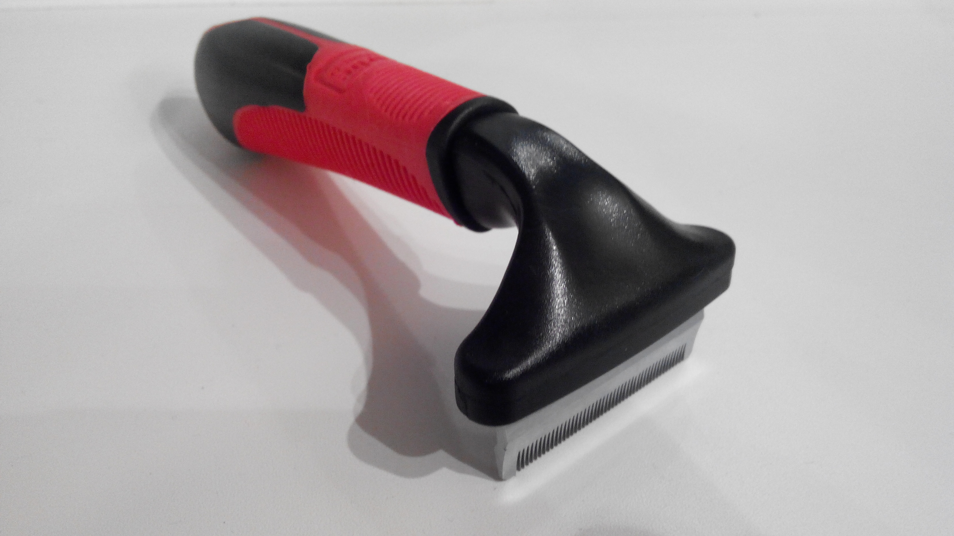 FURMASTER comb with handle for cats. Produced by Karlie Flamingo (Belgium)